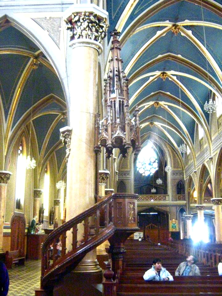 pulpito de la basilica de ubaté